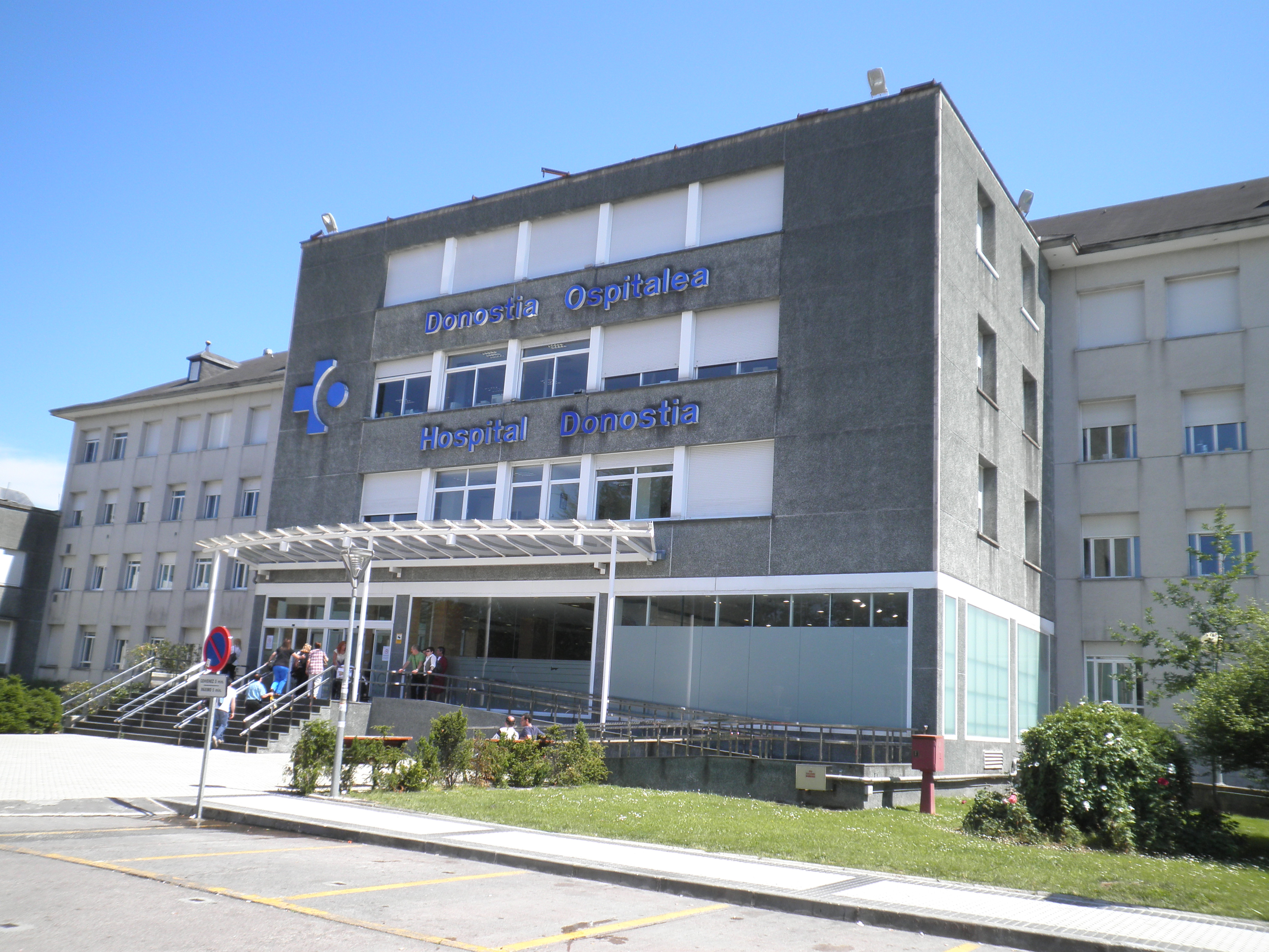 Main hospital of Donostia.